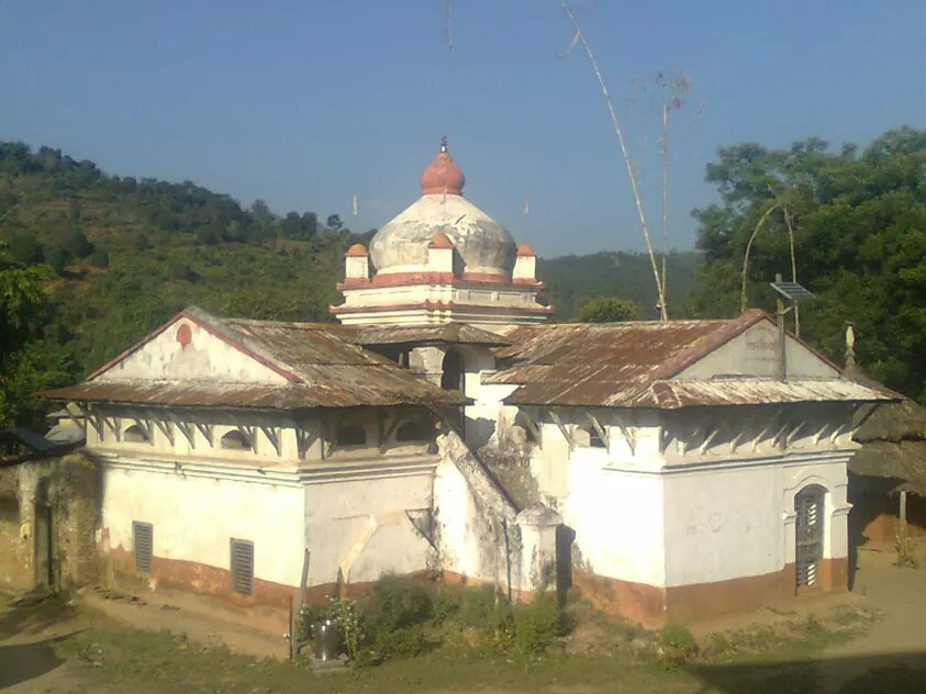 Old temple of Lord Radha Krishna at Keladighat.नेपाली: केलादीघाटको राधाकृष्ण देवताको मन्दिर - पुरानो